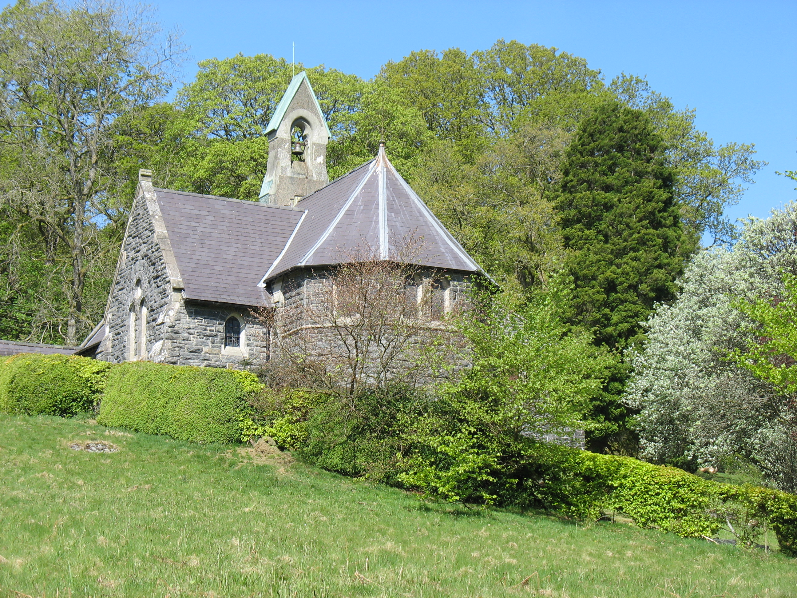 St Wddyn's church, Llanwddyn. This church was built at the time of construction of Lake Vyrnwy reservoir, as the previous church disappeared beneath the water.